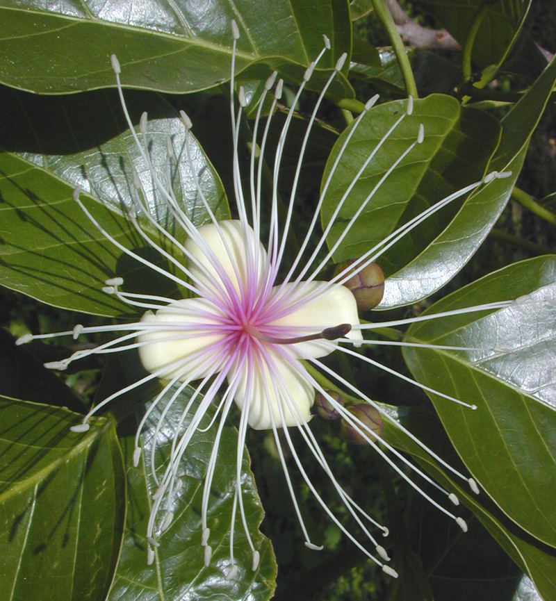 Photograph of a flower of Crateva religiosa (Capparaceae)